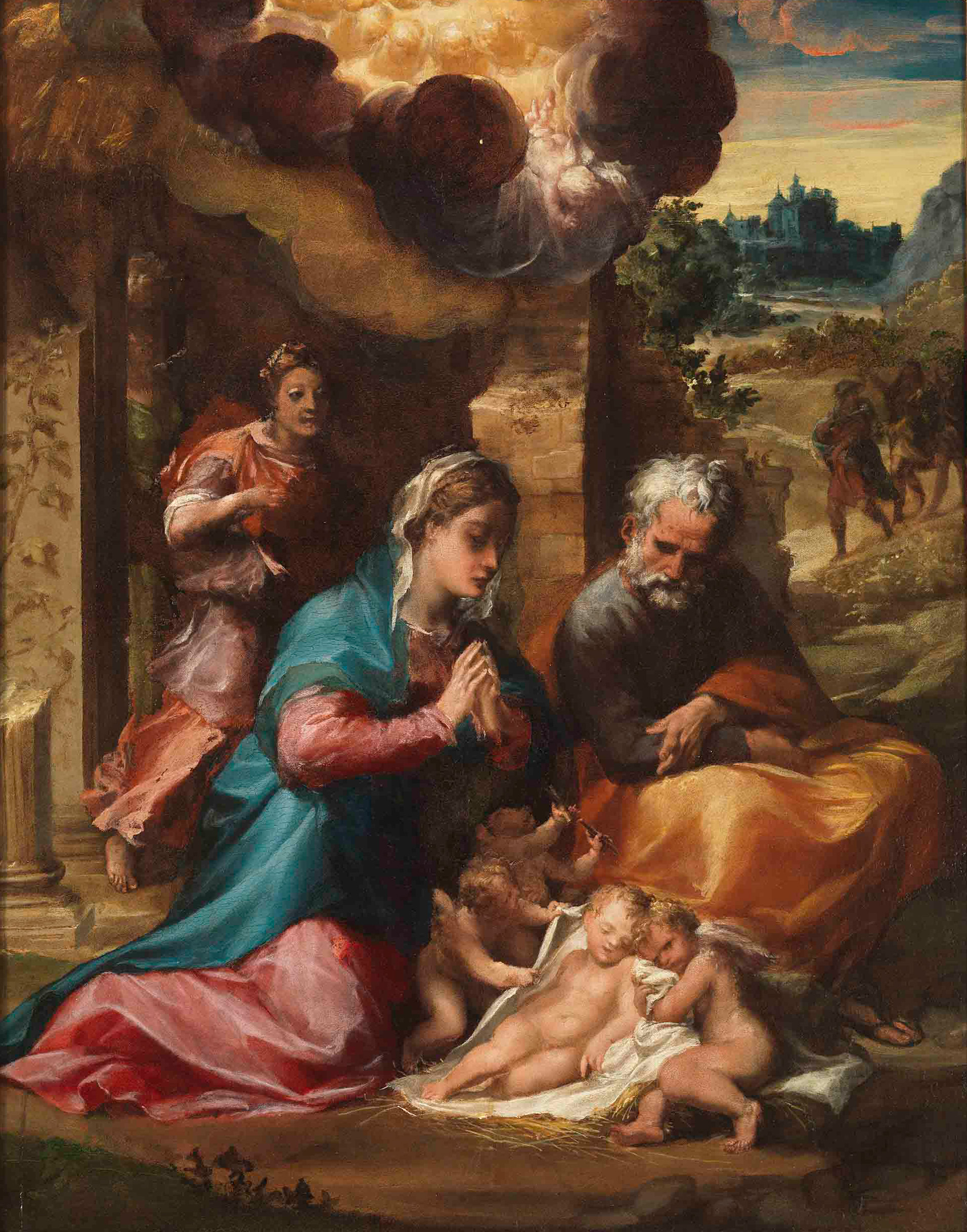 Nativity with Annunciation to the Sheperds